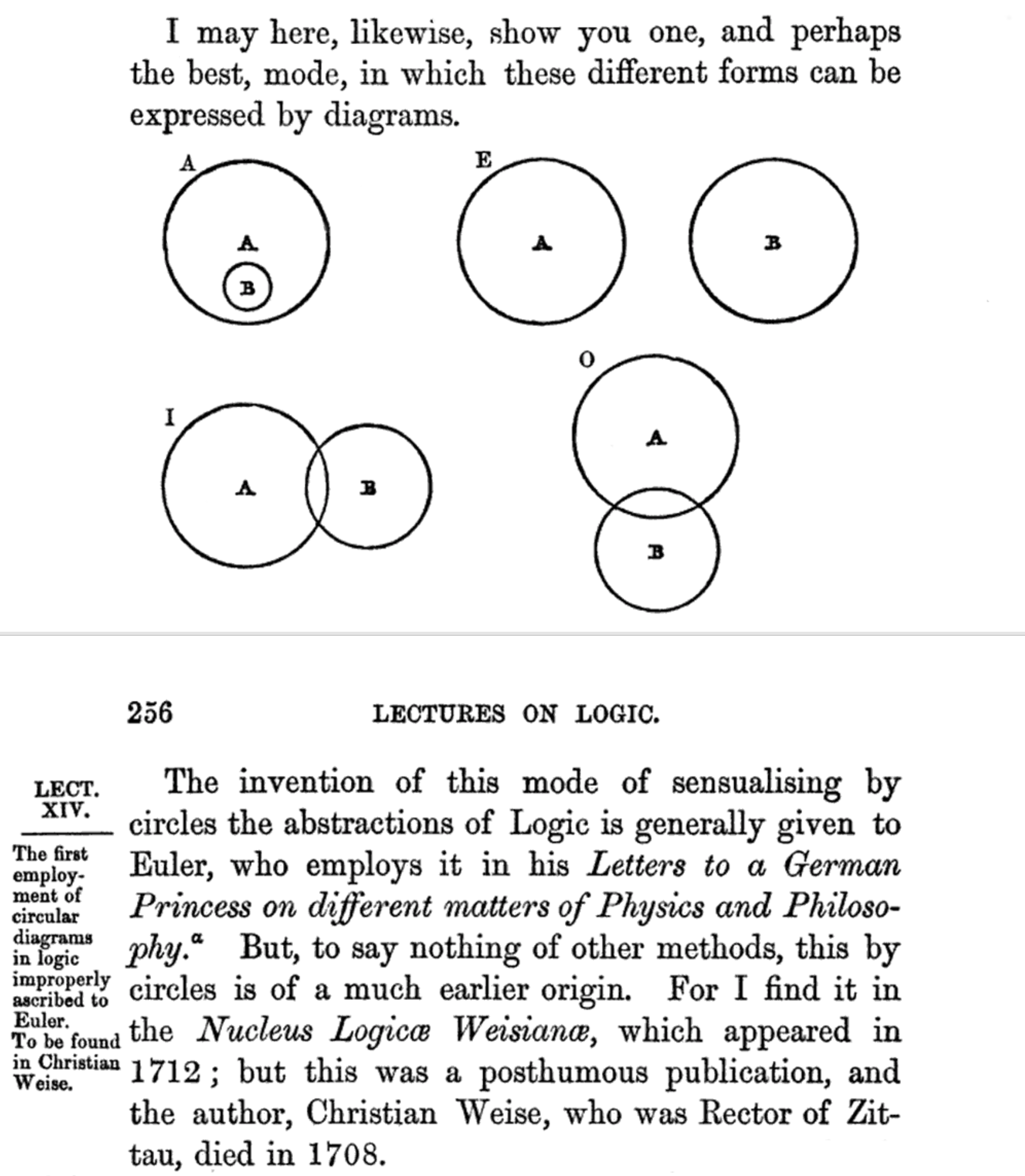 Euler diagrams and description from Hamilton's Lecture on Logic XIV, ascribing their invention to Christian Weise in 1712.